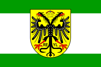 Flag